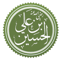 Hussein-Bin-Ali-Name